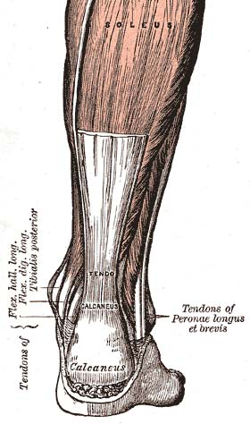 The Achilles' tendon. PD image from Gray's Anatomy, from .